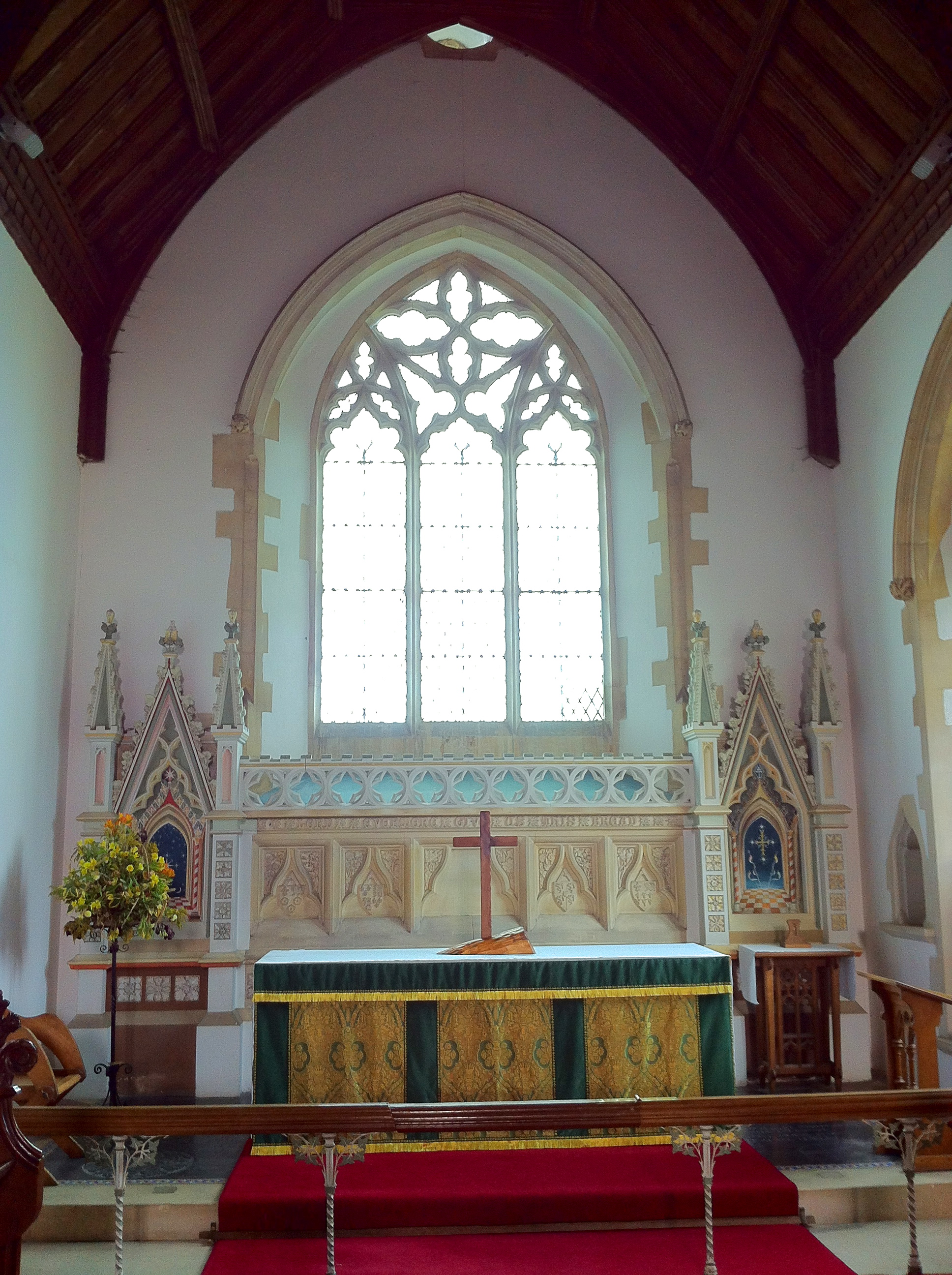 The chancel of St Mary's Church, Kersey